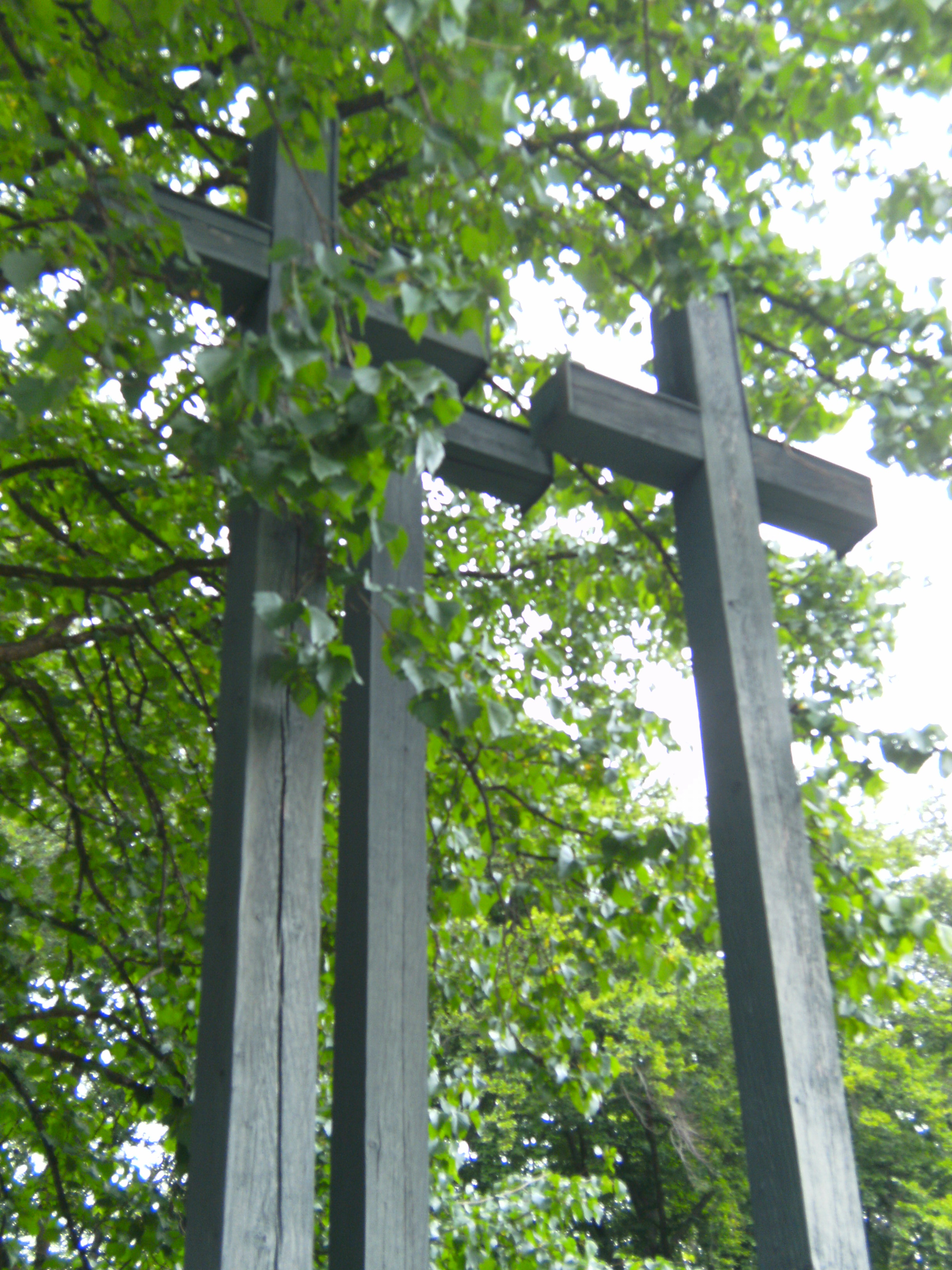 War cemetery for victims of bombing of Würzburg in World War II. Mass grave at the entrance to the Hauptfriedhof (central cemetery): High crosses.